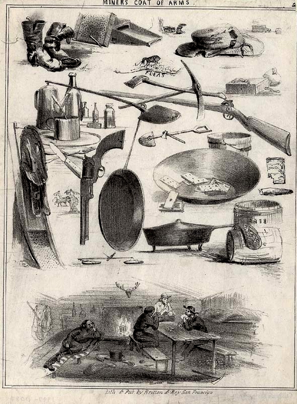 Shown on this thin writing paper are an assortment of implements and objects common to a miner's life: wash pan, pick, shovel, rocker, axe, rifle, pistol, scales, cooking utensils, playing cards, cigar, worn boots, and hats. In the middle, however, is that ubiquitous companion, the flea. The lower portion of this letter sheet depicts four miners in a cabin playing cards.